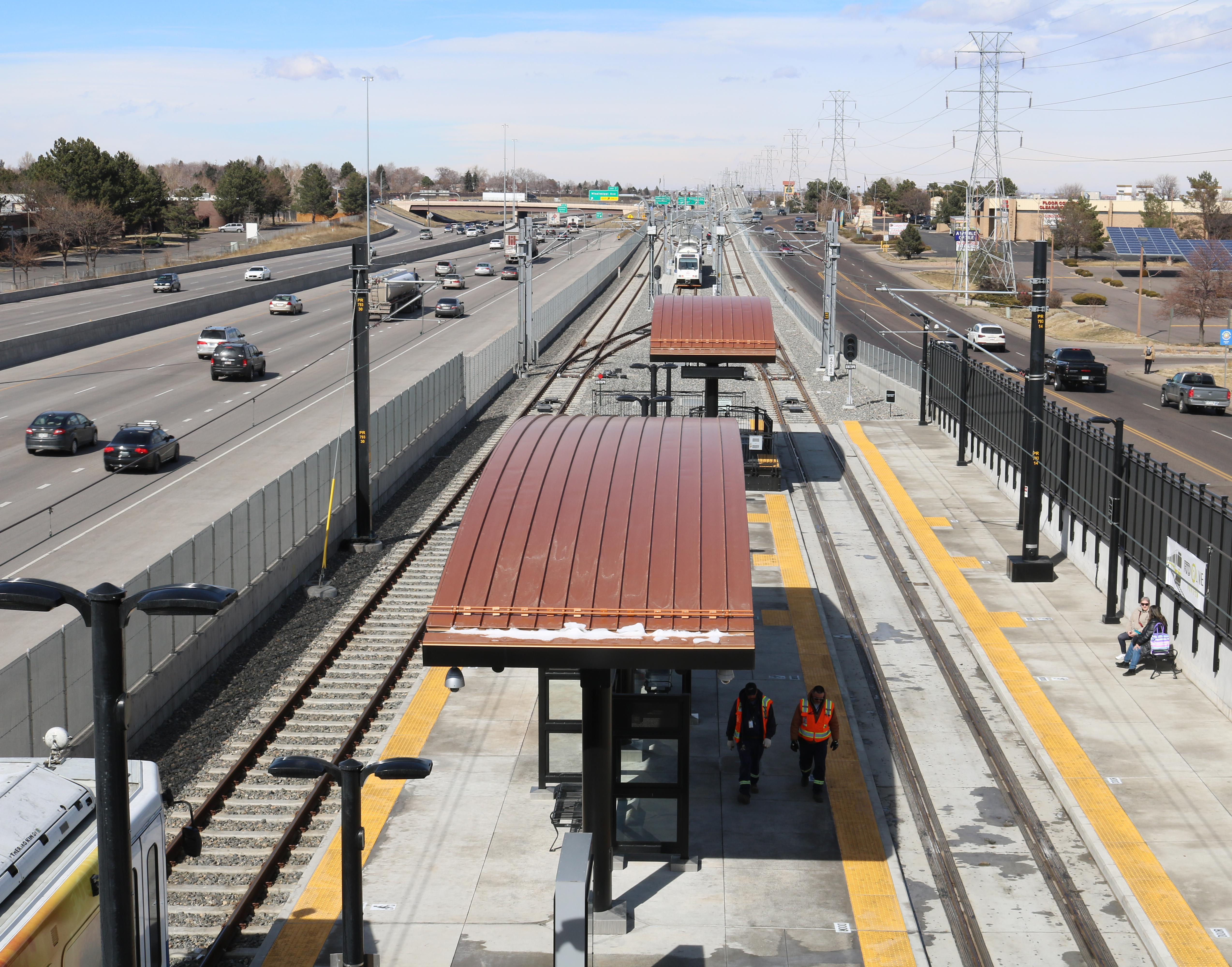 The RTD Florida Station, located at 1490 South Abilene Street in Aurora, Colorado. The station is on the RTD R-Line.